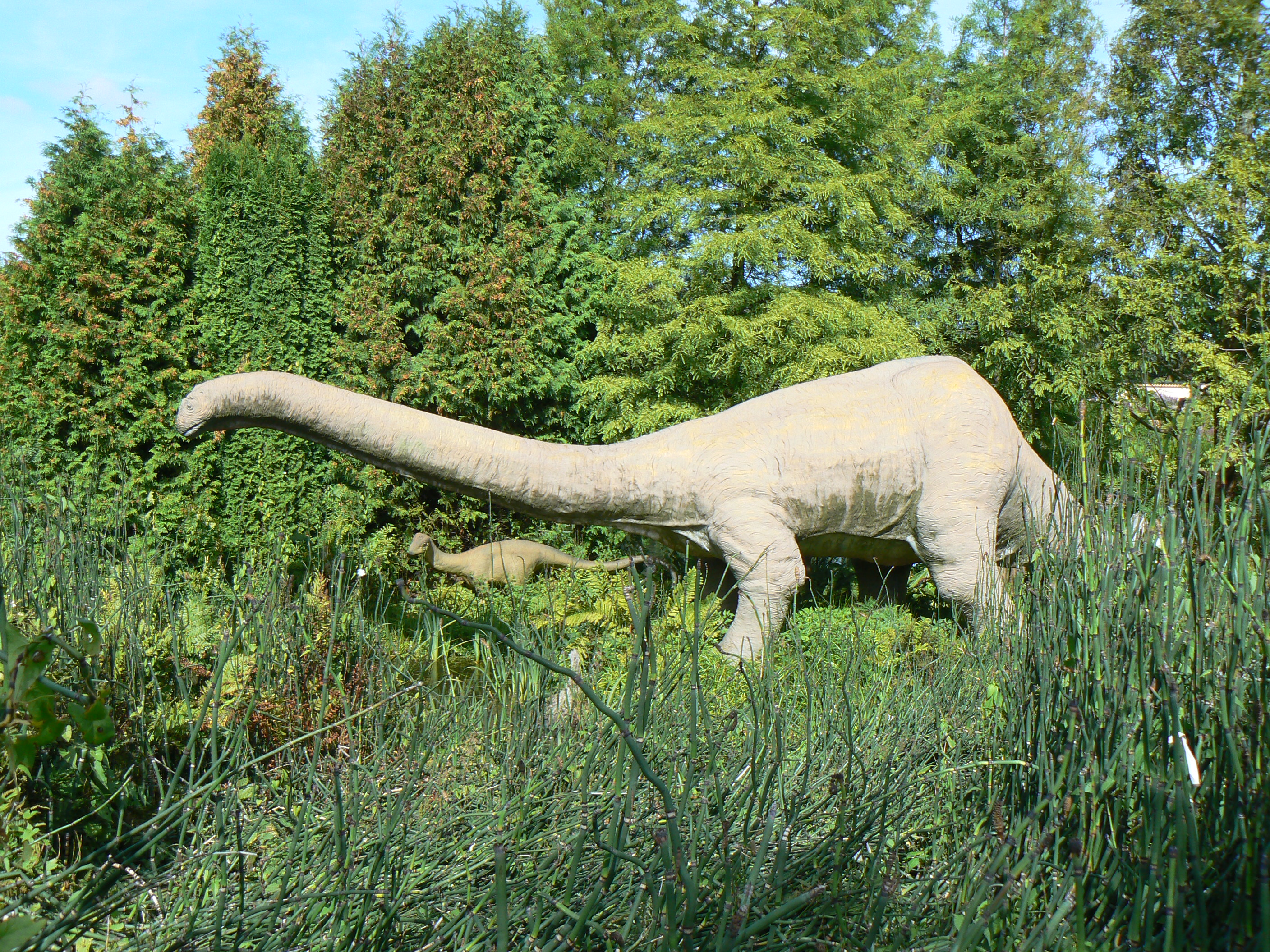 scientific dinosaur model displayed at the Arboretum Ellerhoop, Schleswig-Holstein, Germany